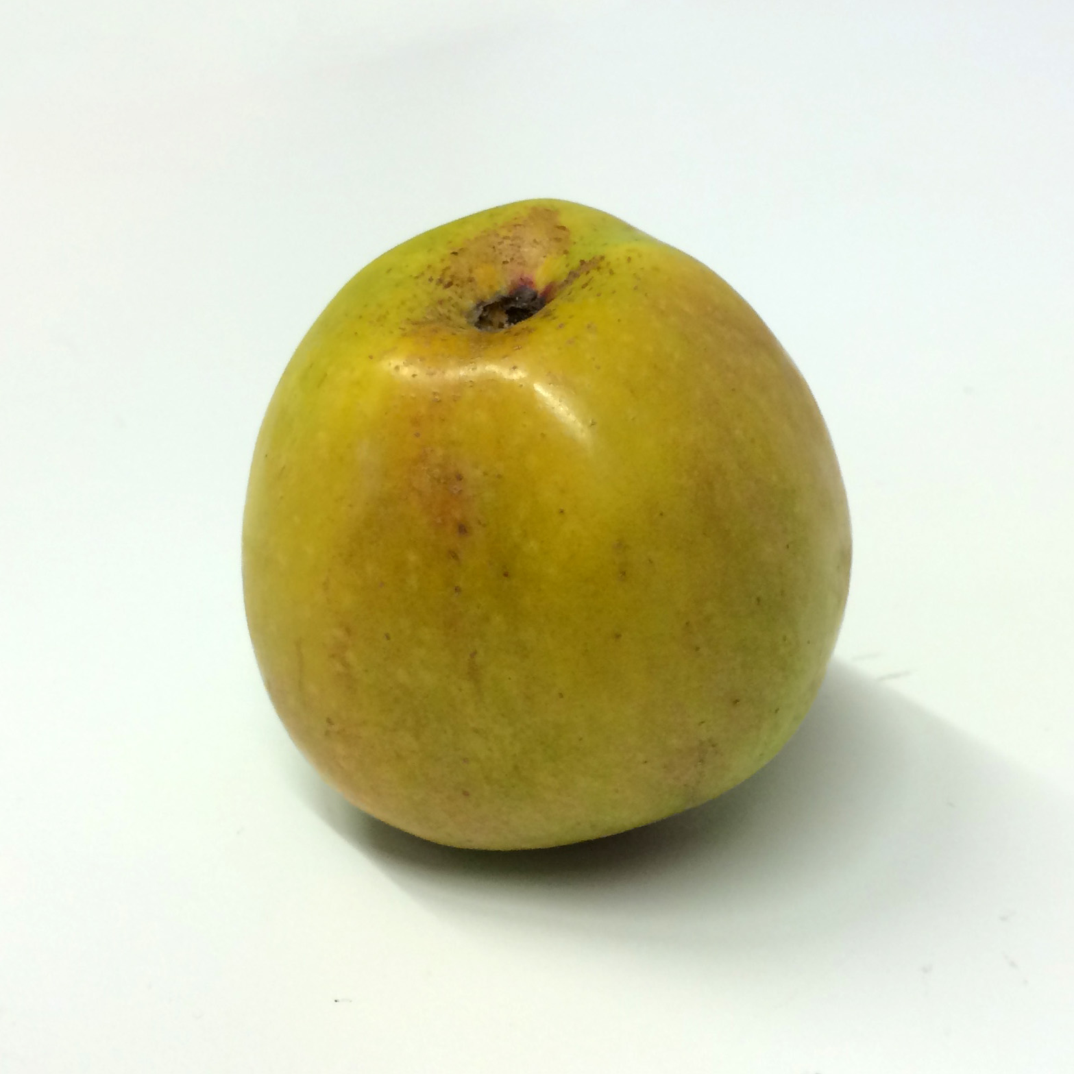 Apple of the cultivar Yellow Richard, photographed in conjunction with the Apple Festival at Nordiska museet, Stockholm, Sweden in September 2014.